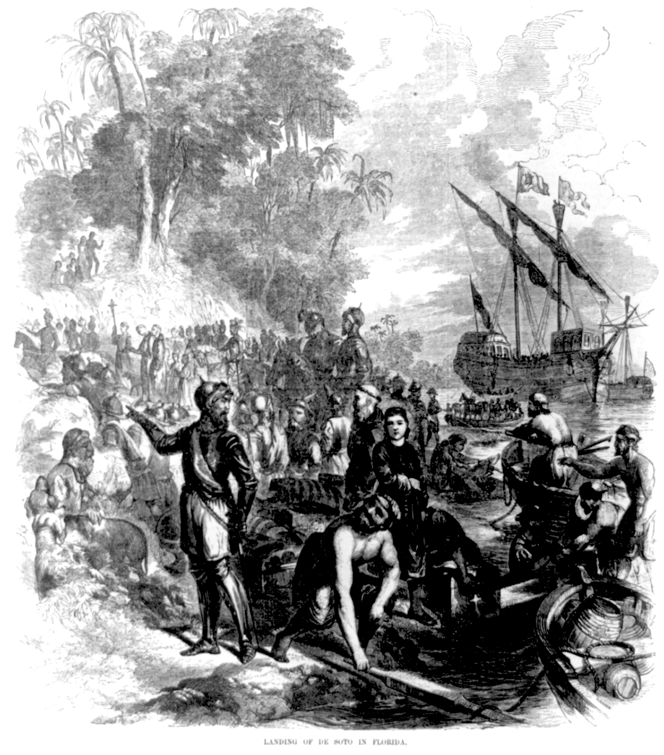 Landing of De Soto in Florida / Warren. CALL NUMBER: Illus. in AP2.B227 1855 (Case Y) [P&P] REPRODUCTION NUMBER: LC-USZ62-3031 (b&w film copy neg.) RIGHTS INFORMATION: No known restrictions on publication. SUMMARY: Illustration shows Hernando de Soto (1496/1500-1542), soldiers, sailors and priests landing in Florida in 1539. MEDIUM: 1 print : wood engraving. CREATED/PUBLISHED: 1855. NOTES: Illus. in: Ballou's pictorial, v. 8, (1855 April 7), p. 217.